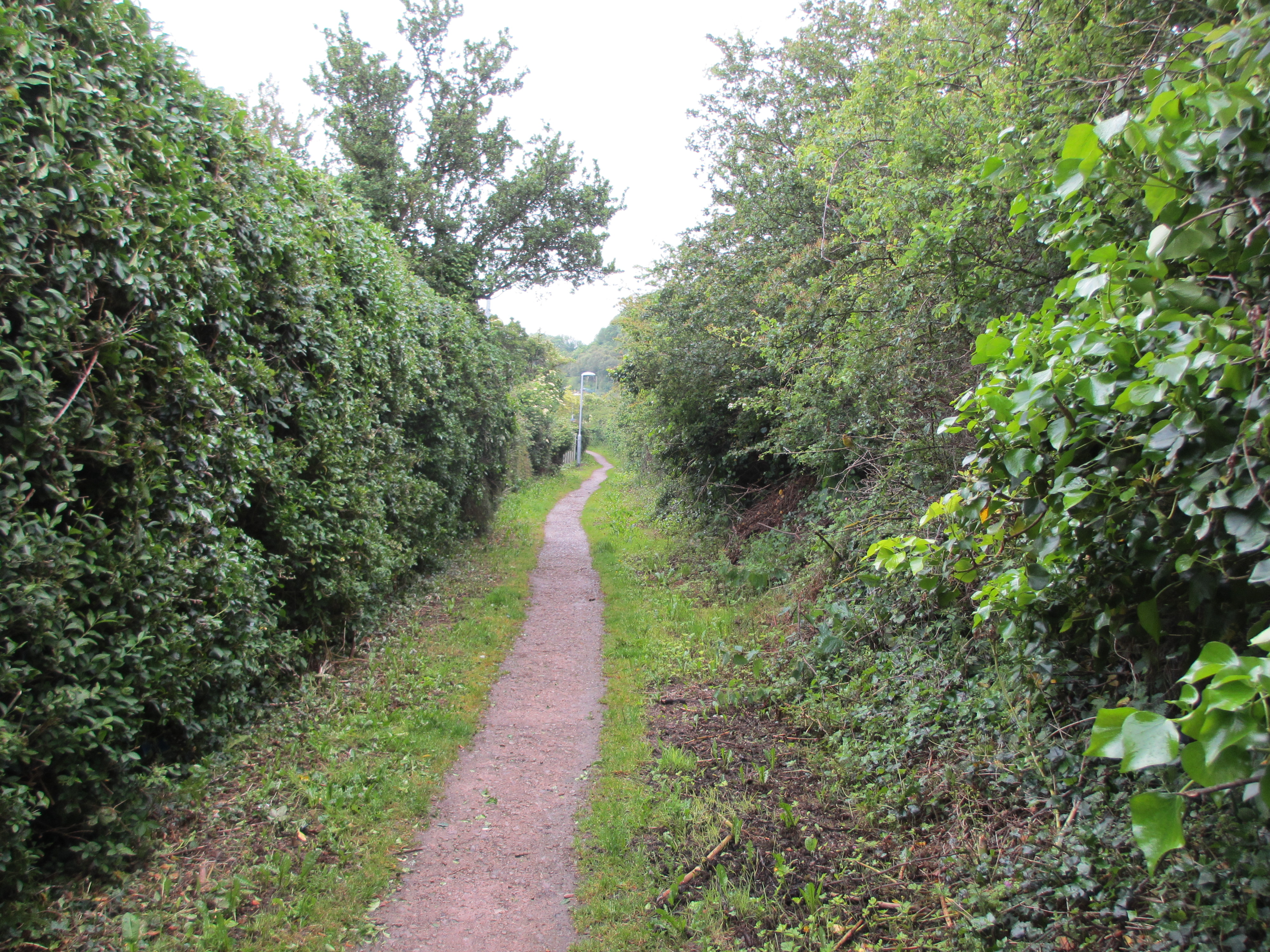 Bridleway to Bryn Y Bia Road: National Cycle Route 5 (Public Bridleway 17/40) cuts inland before rejoining the coast at Penrhyn Bay. View Direction East-southeast (about 112 degrees)